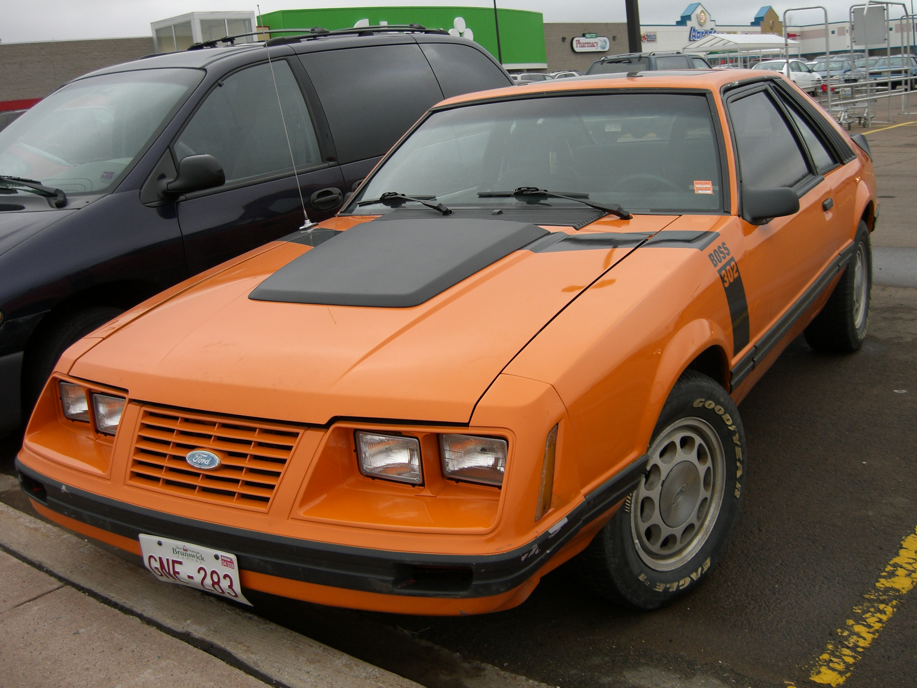 1980's style ford mustang. Author: Michael Waddy I took the photo myself with a 7mp digital camera. 1of 2